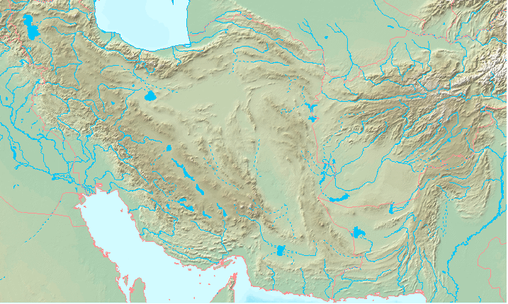 The Iranian plateau, or Persian plateau , is in southern Western Asia and Central Asia. The Iranian plateau is centered in Iran, and connects to Anatolia in the west and the Hindu Kush and Himalaya in the east.